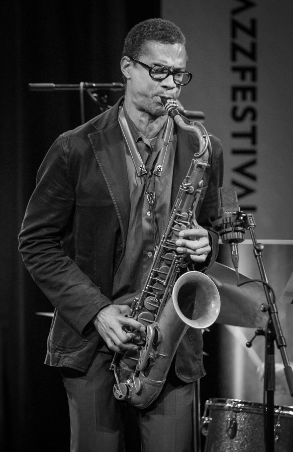 Mark Turner with Tom Harrell Trip at Victoria Teater. The concert was part of Oslo Jazzfestival and took place on 15. August 2017 in Oslo. Lineup: Tom Harrell (trumpet), Mark Turner (tenor saxophone), Ugonna Okegwo (double bass) and Adam Cruz (drums).